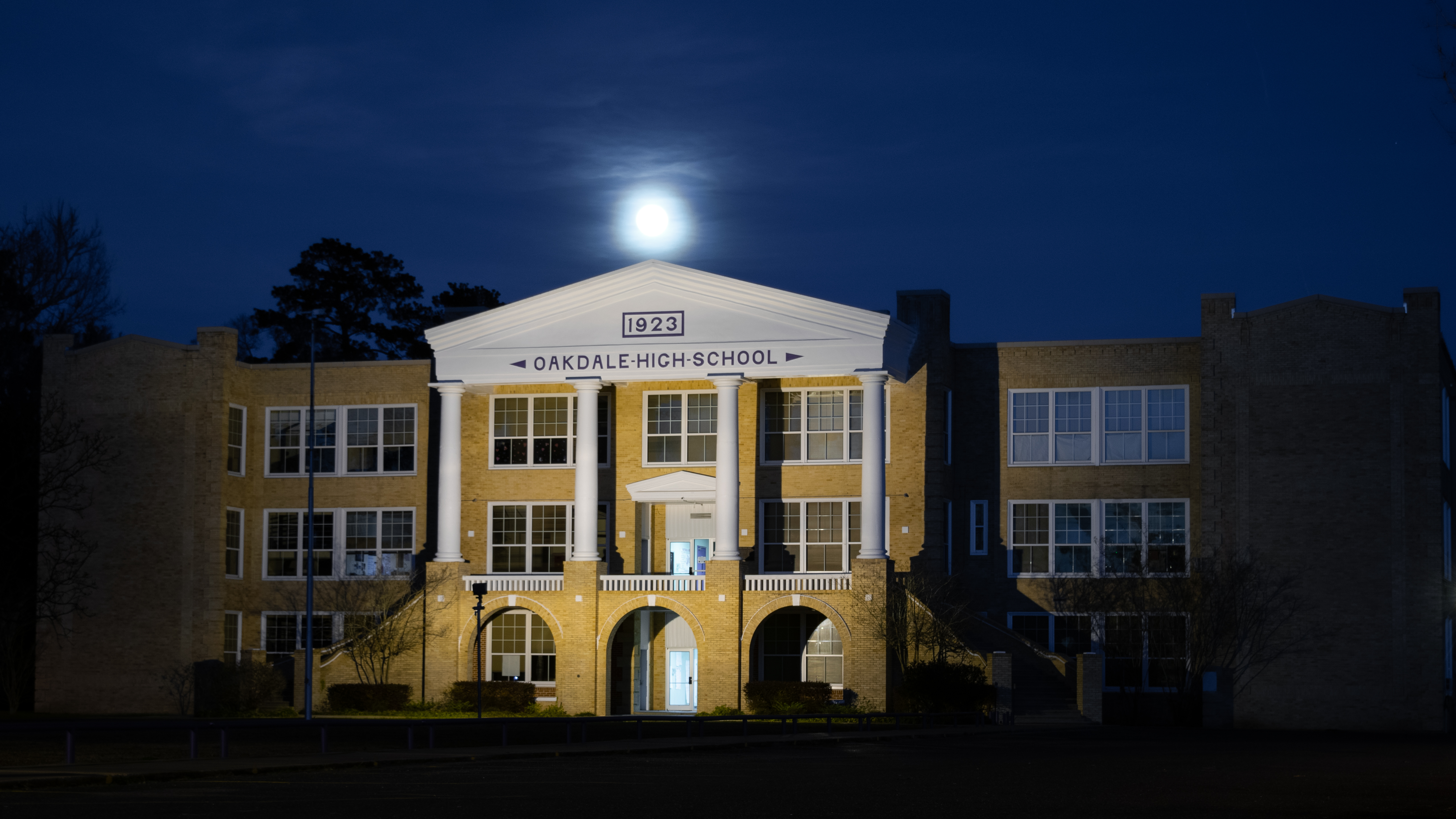 This photo was taken by Randell Gresham of RG's Photography on 1/20/2019 and the full moon hovered over the school.